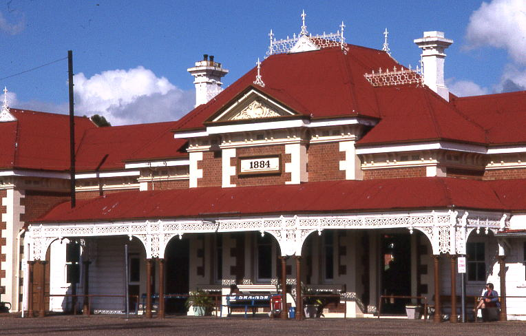 The railway station at Mudgee, New South Wales, Australia.